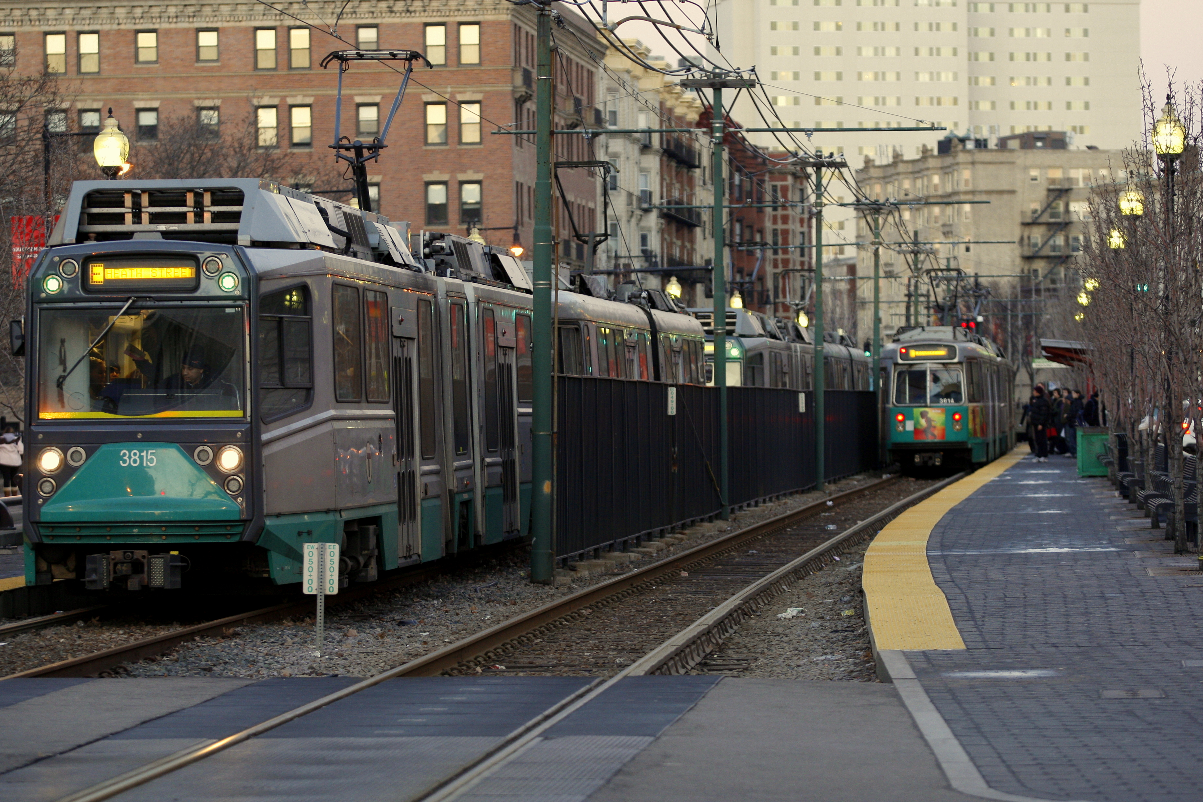 Green Line trains at Northeastern University station in January 2008